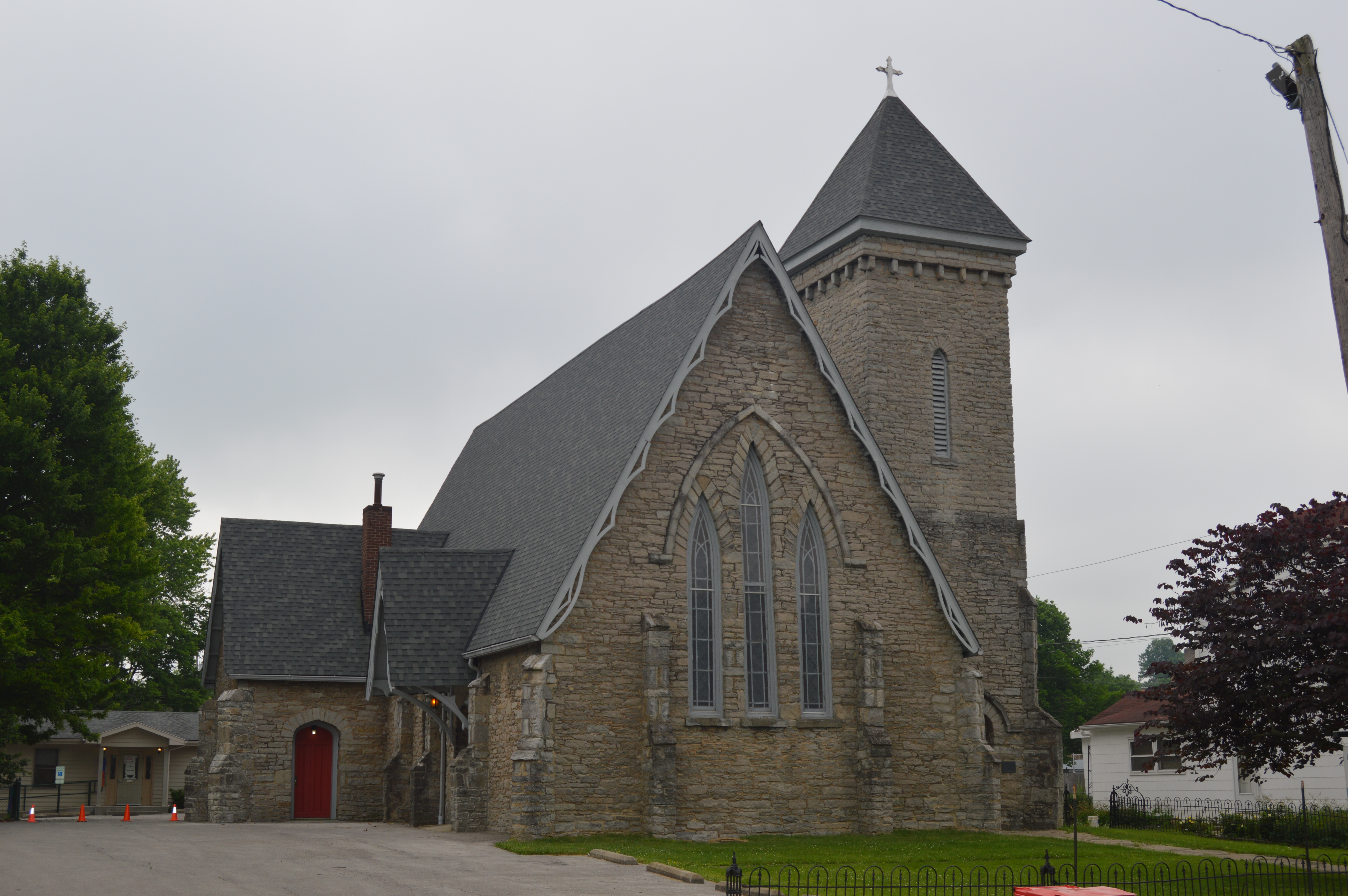 Front of the Episcopal Church of the Advent, located at 122 N. Walnut Street (U.S. Route 62) in Cynthiana, Kentucky, United States. Built in 1855, it is listed on the National Register of Historic Places.